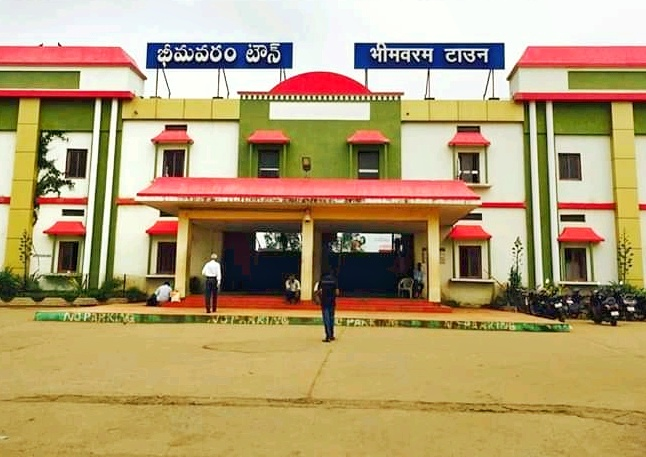 భీమవరం టౌన్